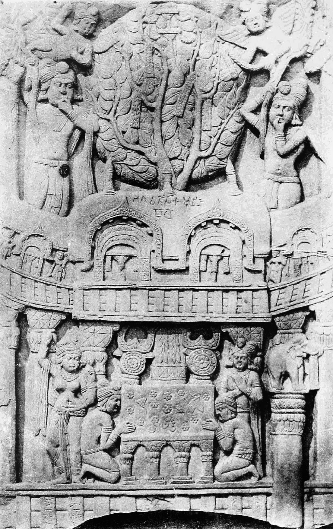 Bharhut inscription: Bhagavato Sakamunino Bodho ("The illumination of the Blessed Sakamuni"), circa 100 BCE.[1] A modern imageBharhut relief with Diamond throne and Mahabodhi Temple around the Boddhi Tree